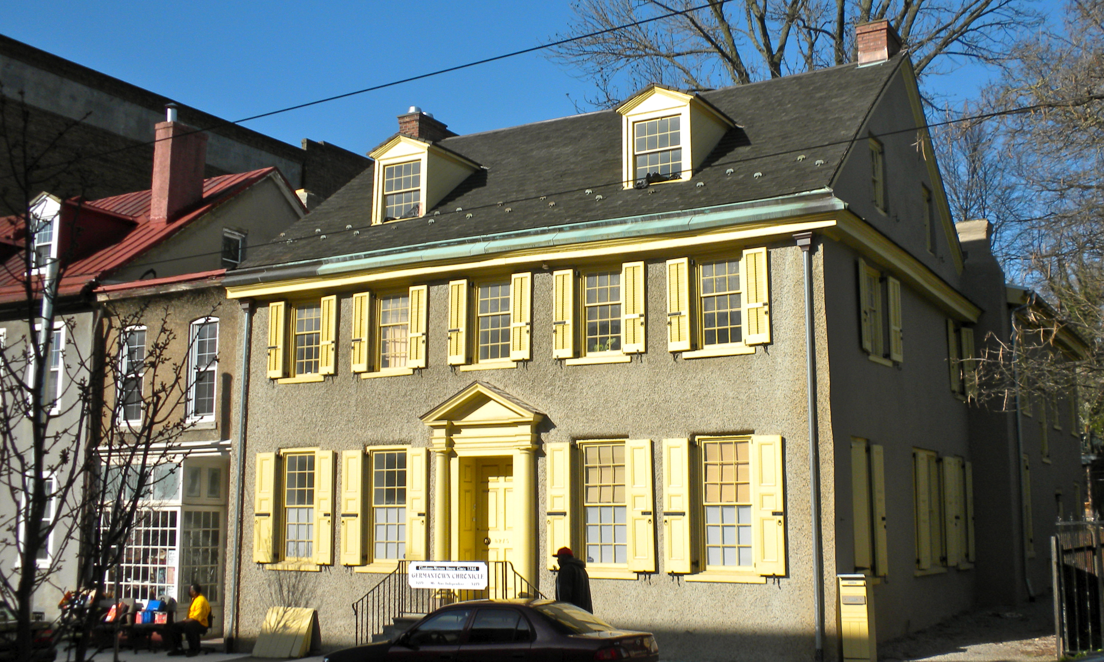 Clarkson-Watson House on NRHP since April 2, 1973 at 5275–5277 Germantown Avenue. Served as a newspaper office in historic Germantown "suburb" of Philadelphia